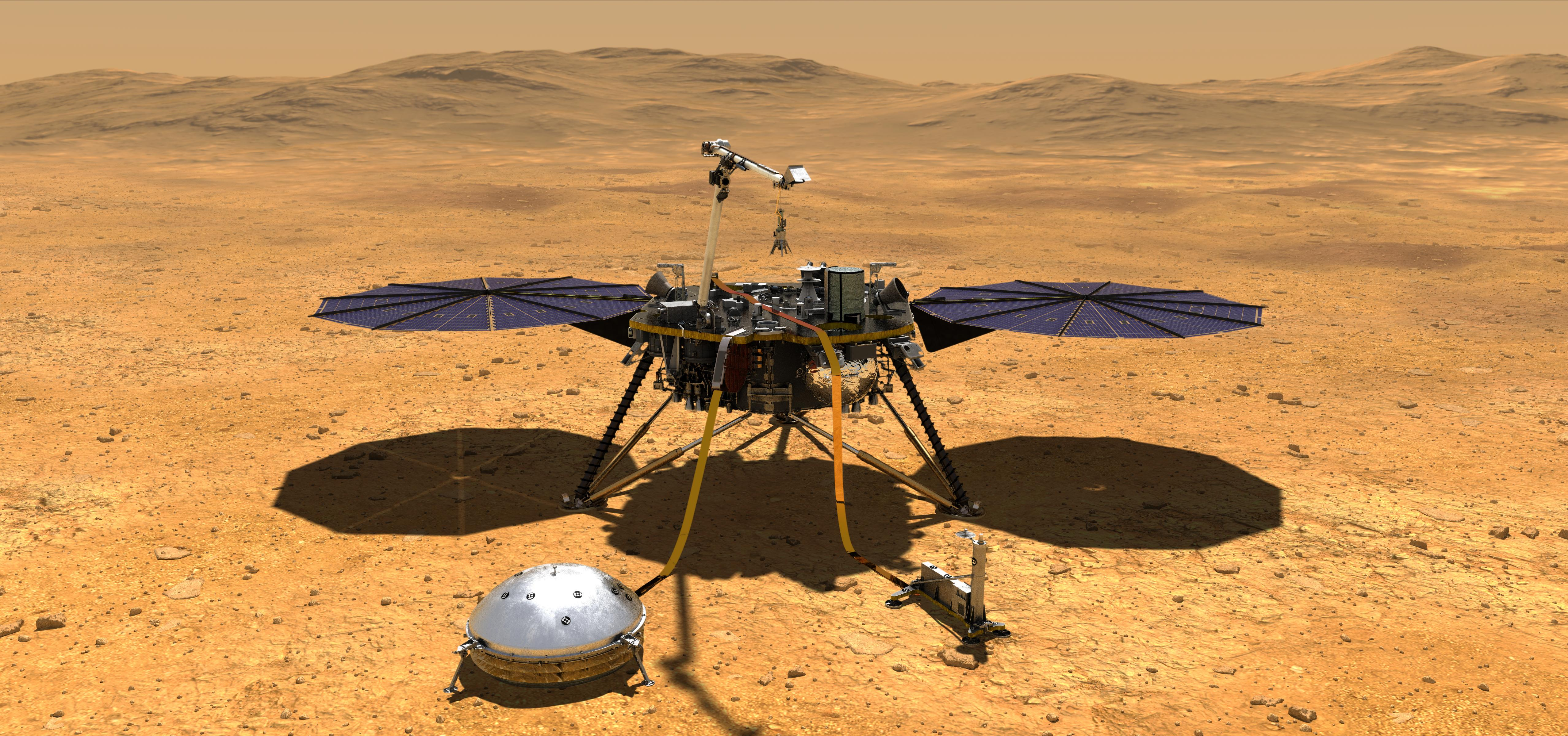 PIA22743: InSight Deploys Its Instruments This artist's concept depicts NASA's InSight lander after it has deployed its instruments on the Martian surface. NASA's Jet Propulsion Laboratory, a division of Caltech in Pasadena, California, manages the InSight Project for NASA's Science Mission Directorate, Washington. Lockheed Martin Space, Denver, Colorado built the spacecraft. InSight is part of NASA's Discovery Program, which is managed by NASA's Marshall Space Flight Center in Huntsville, Alabama. For more information about the mission, go to